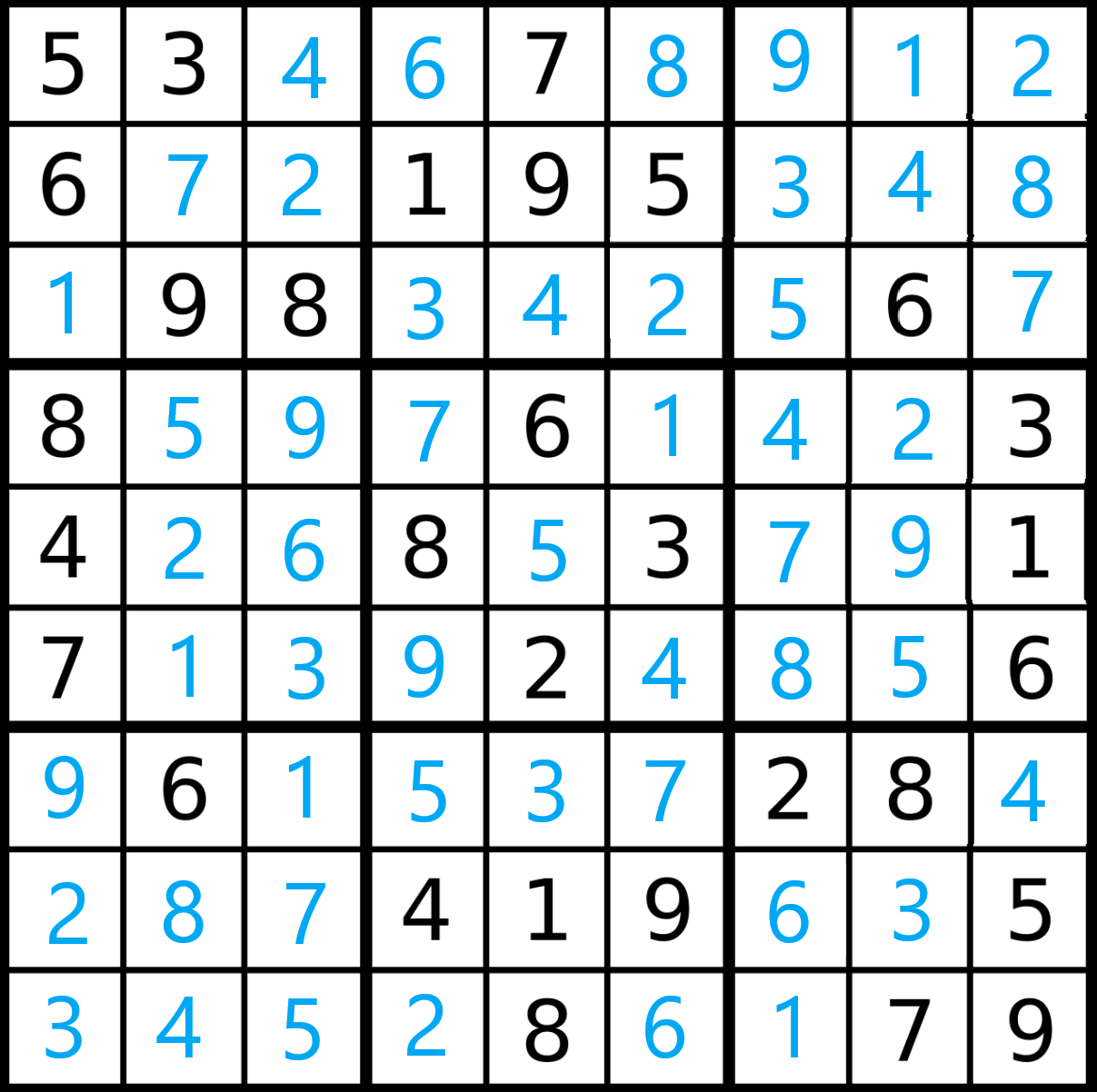 Sudoku solved